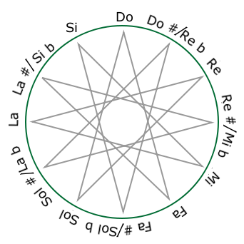 The circle of fifths drawn within the chromatic circle as a star dodecagon